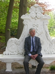 Fries Berkhout picture by Carla Oldenburger